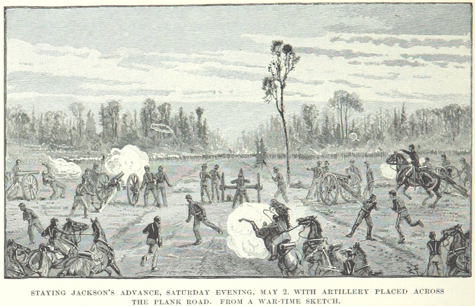 Jackson's 2 May attack at the Battle of Chancellorsville is halted by Union artillery of the XII Corps.